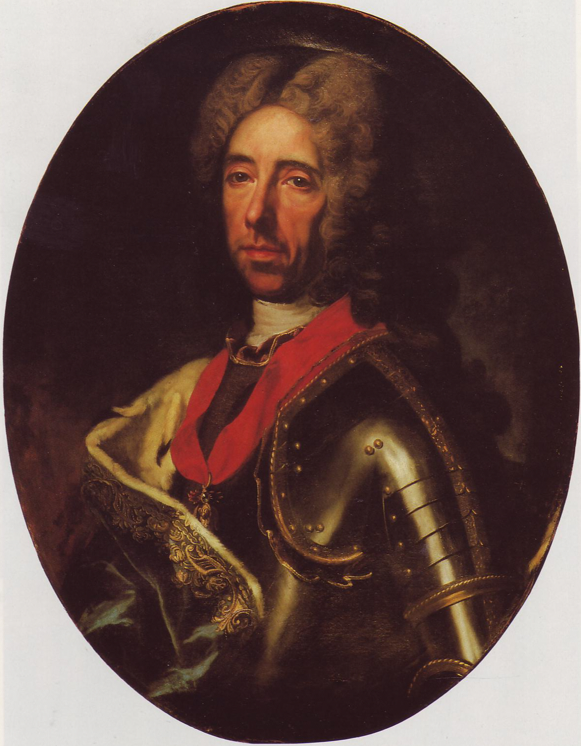 Portrait of Prince Eugene of Savoy (1663-1736) by Johann Gottfried Auerbach, Schloss Charlottenburg, Berlin.